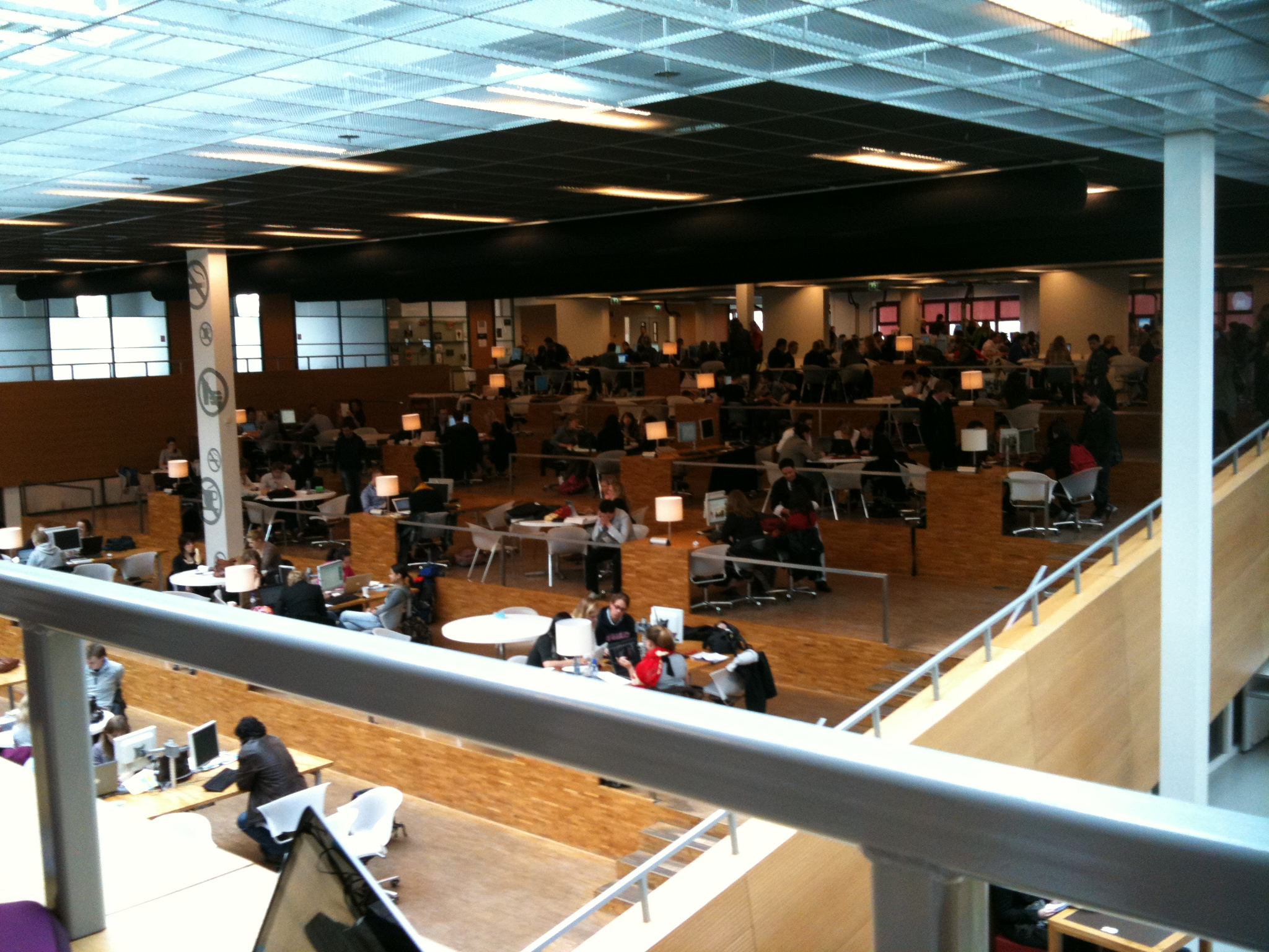 Study landscape at Stenden Hogeschool